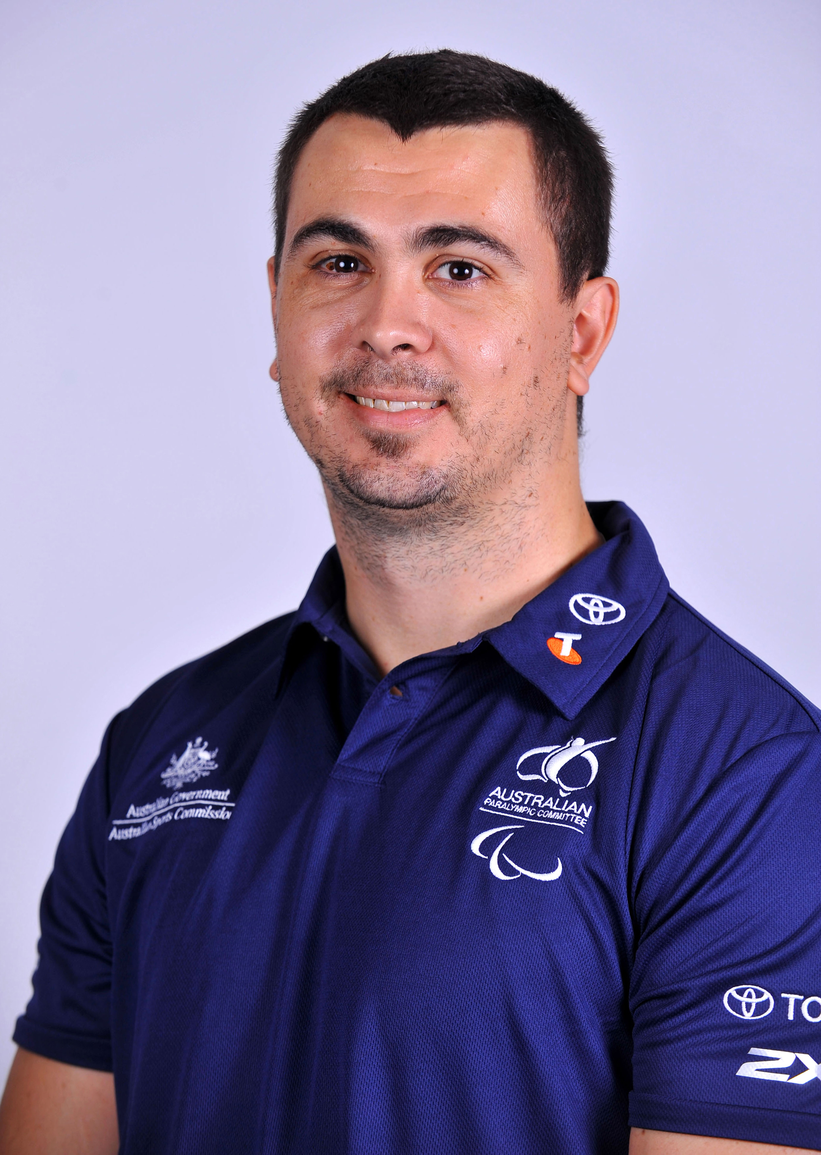 Portrait of Australian wheelchair basketballer Justin Eveson, 2012 Australian Paralympic (shadow) Team athlete